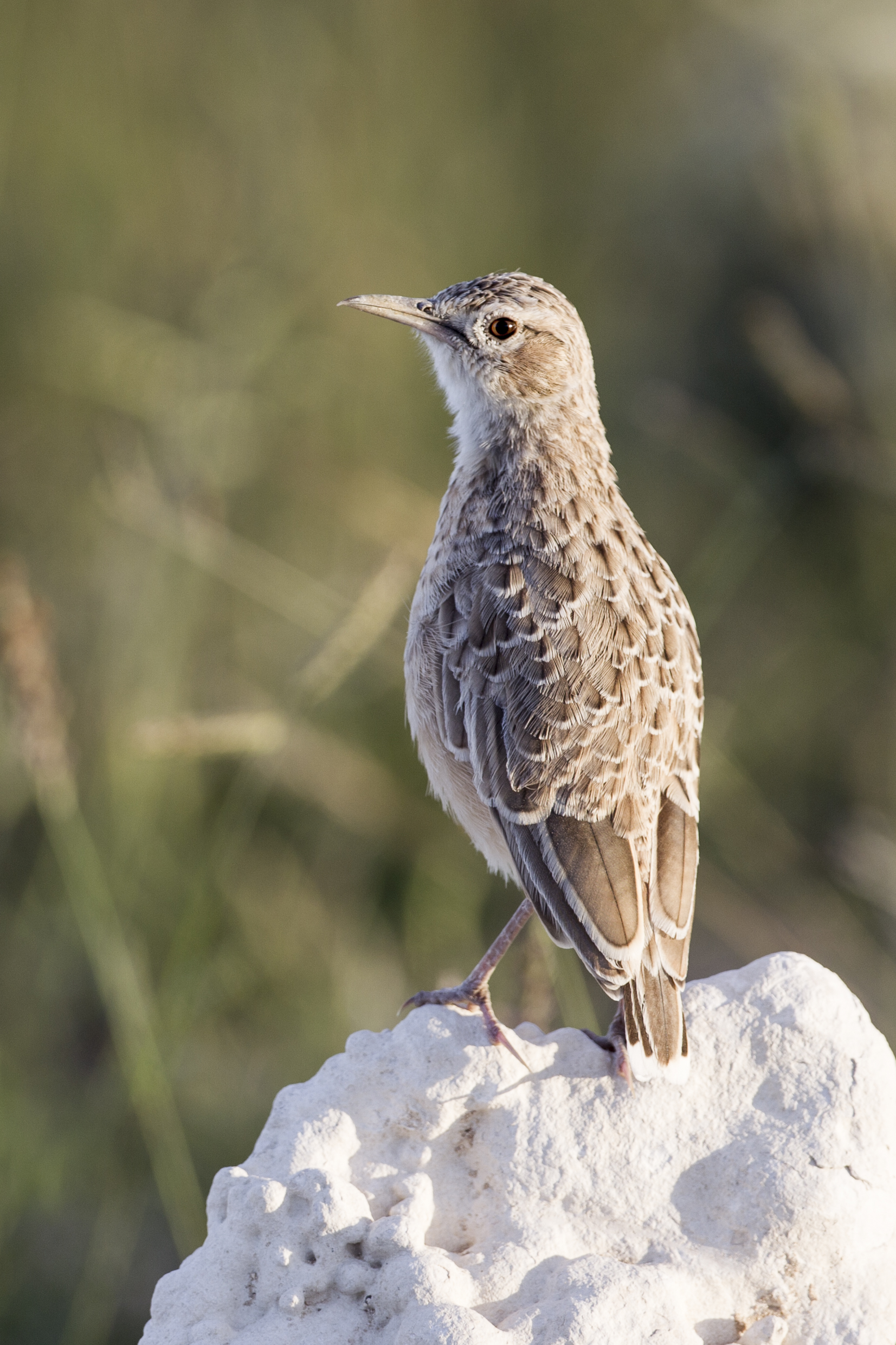 Spike-heeled lark in Etosha National Park